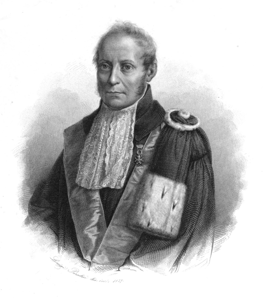 Engraving of Michele Medici (1782-1859), italian physiologist